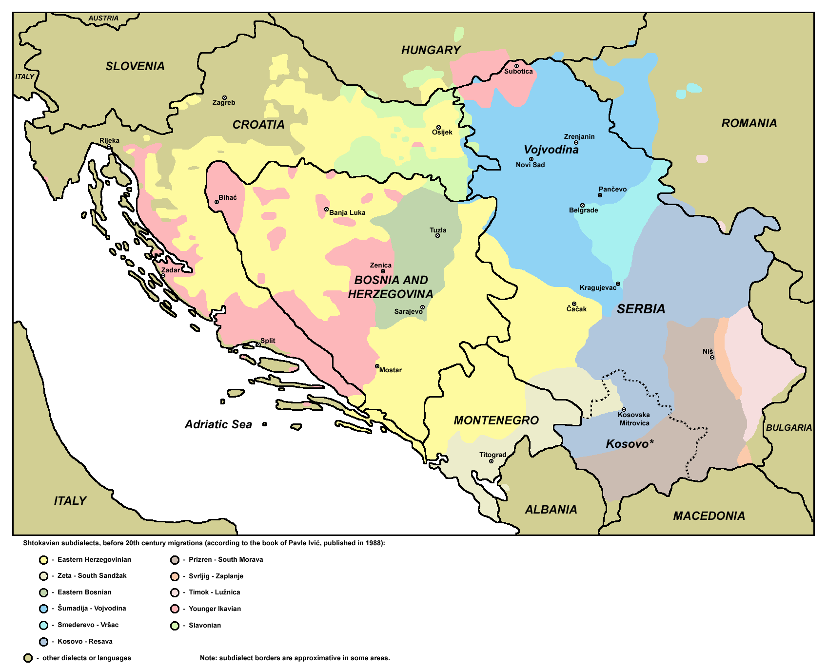 Shtokavian subdialects, before 20th century migrations (according to the book of Pavle Ivić, published in 1988). Srpskohrvatski / српскохрватски: Štokavski poddijalekti, pre migracija u 20. veku (prema knjizi Pavla Ivića, objavljenoj 1988. godine).